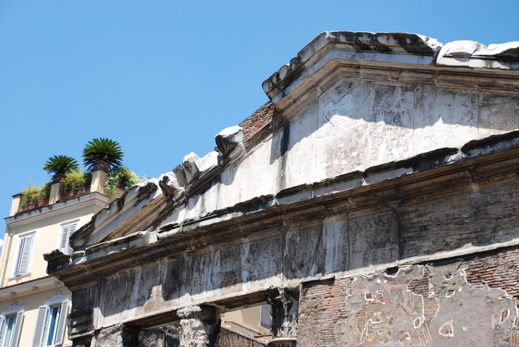 The porticus enclosed within its colonnaded walks the temples of Jupiter Stator and Juno Regina, next to the Theater of Marcellus.